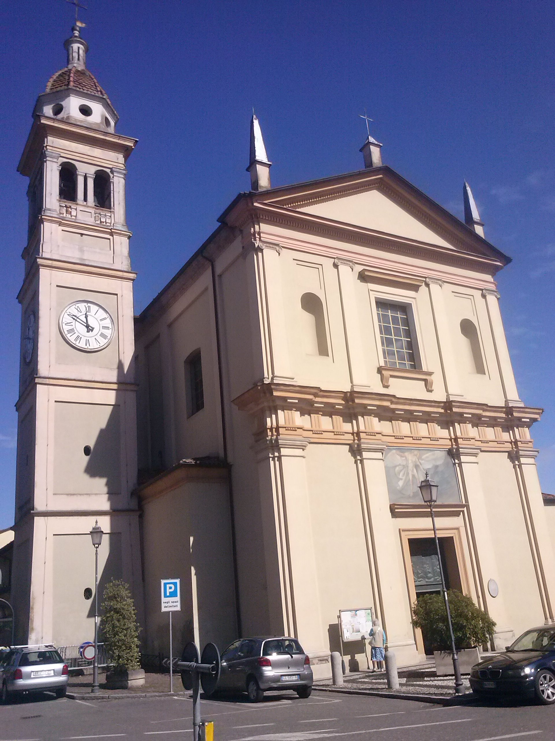 Church of San Michele, Gragnano Trebbiense, Piacenza, Italy